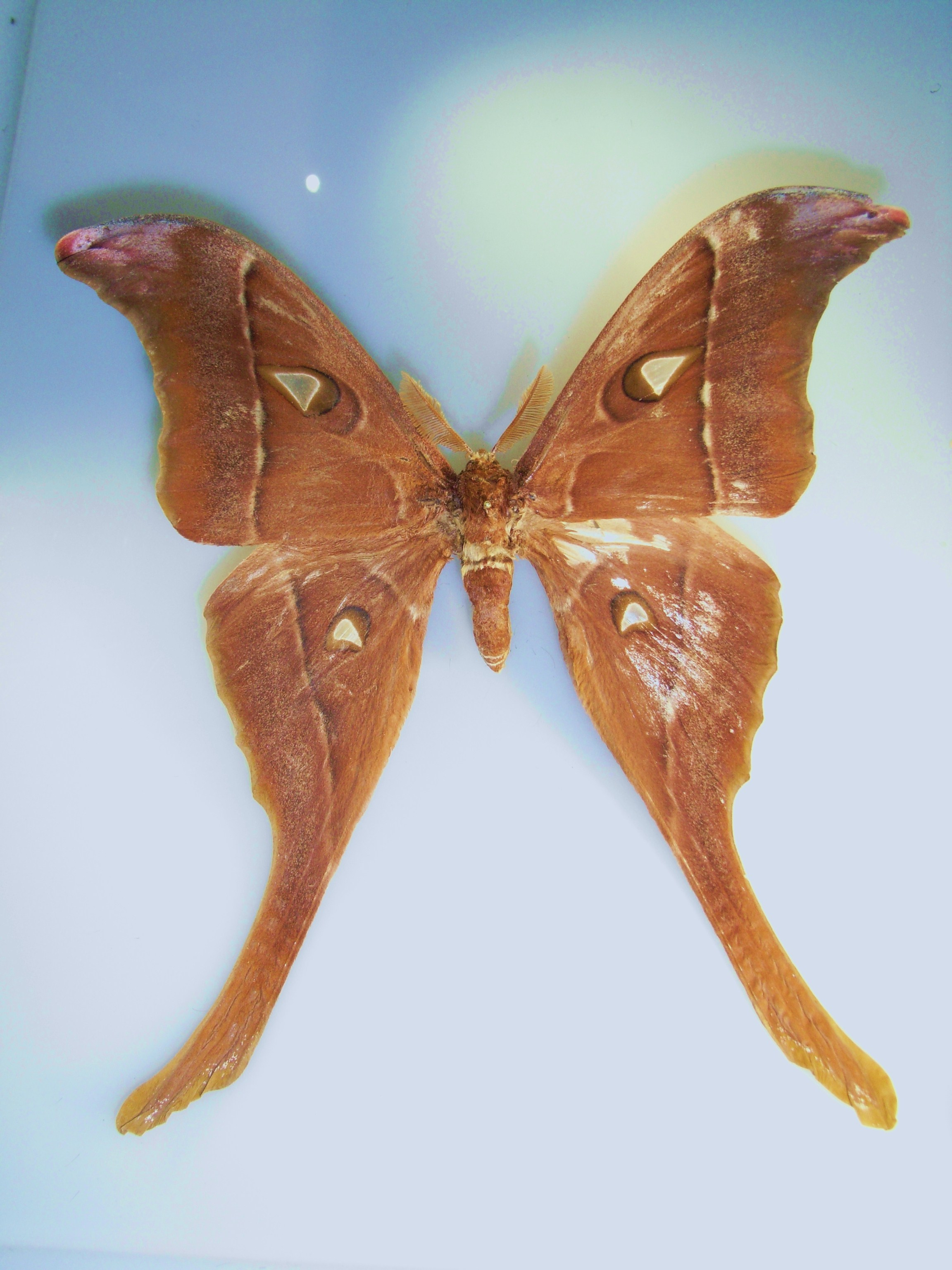 Coscinocera hercules Miskin, 1876 Ex coll. Felix Stumpe